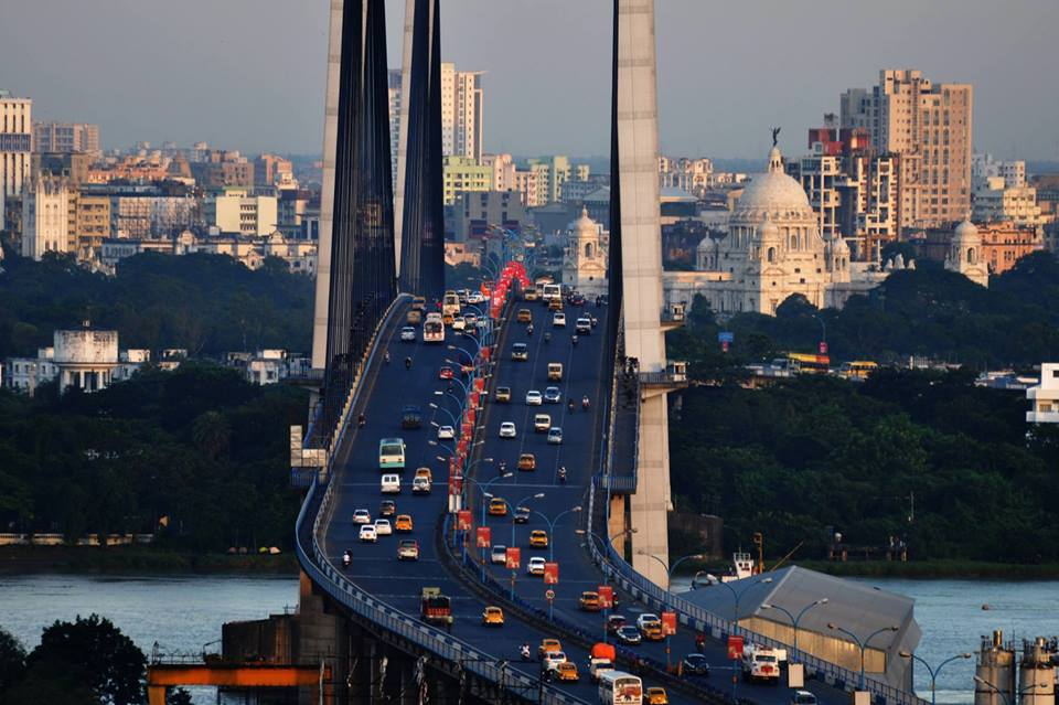 City Skyline from Hoogly Bridge